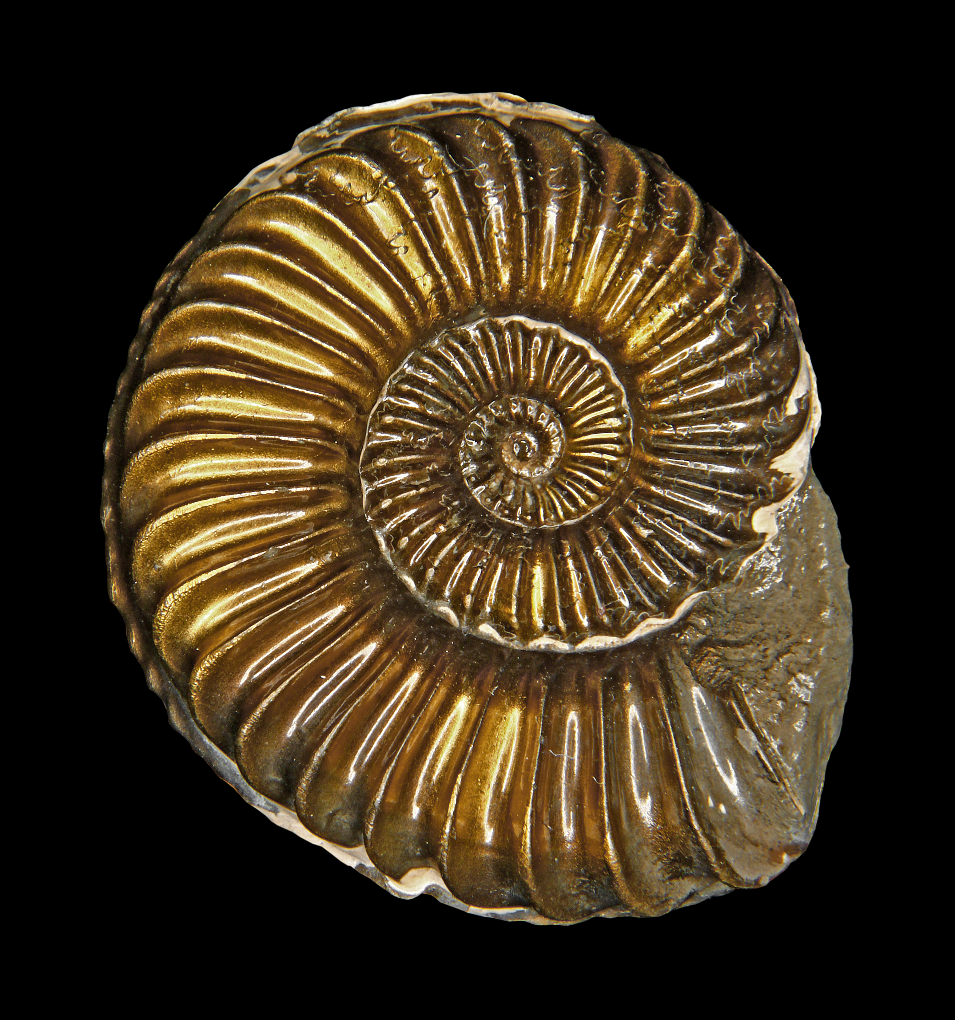 Pleuroceras solare, Amaltheidae; Pyritic specimen; Diameter 3.2 cm; Upper Pliensbachian, Lower Jurassic; Little Switzerland, Bavaria, Germany. own collection, therefore not geocoded.